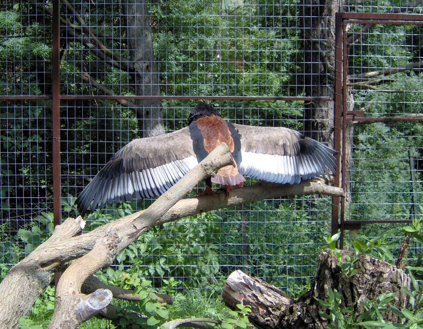 Terathopius ecaudatus sunbathing at Veszprém Zoo